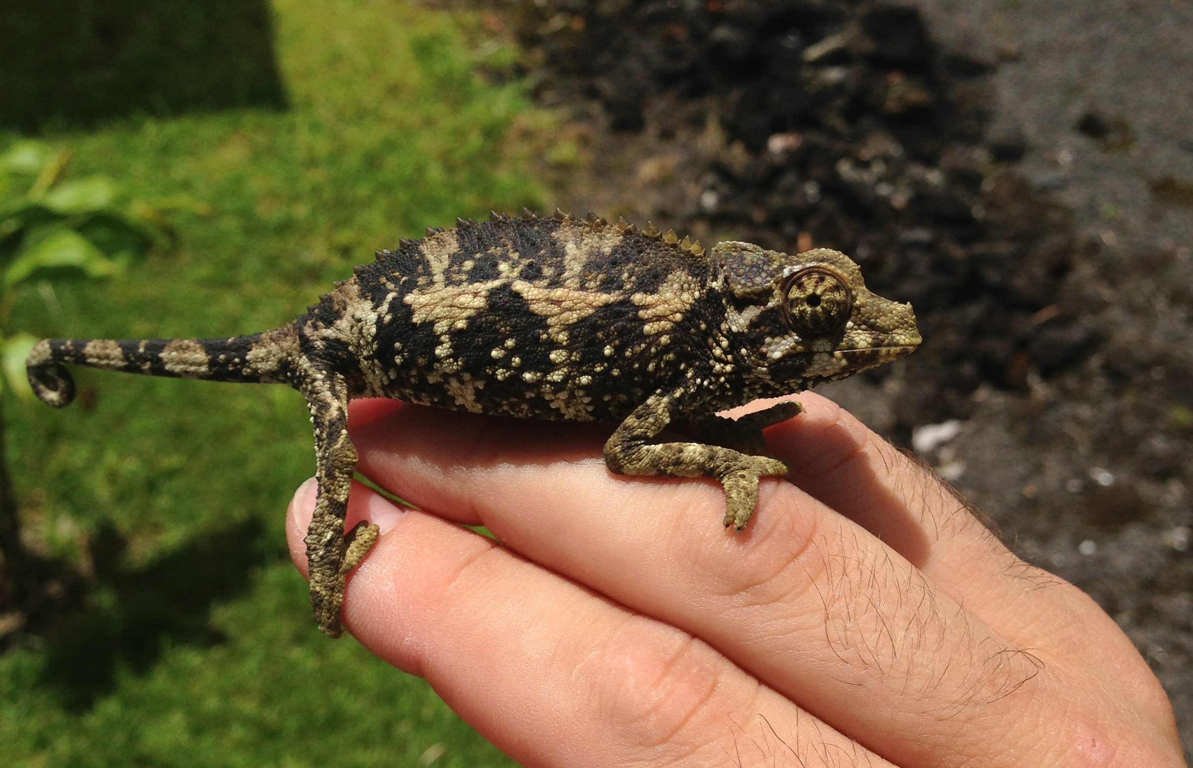 Wild T. j. xantholophus from Hilo, HI